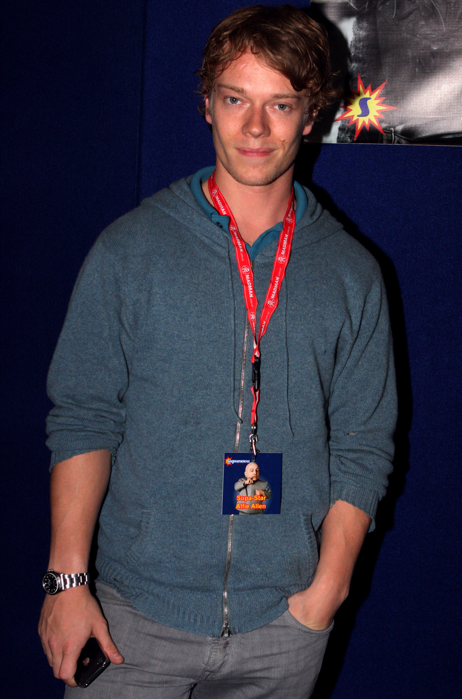 Alfie Allen at the Supernova Pop Culture Expo, Sydney, Australia